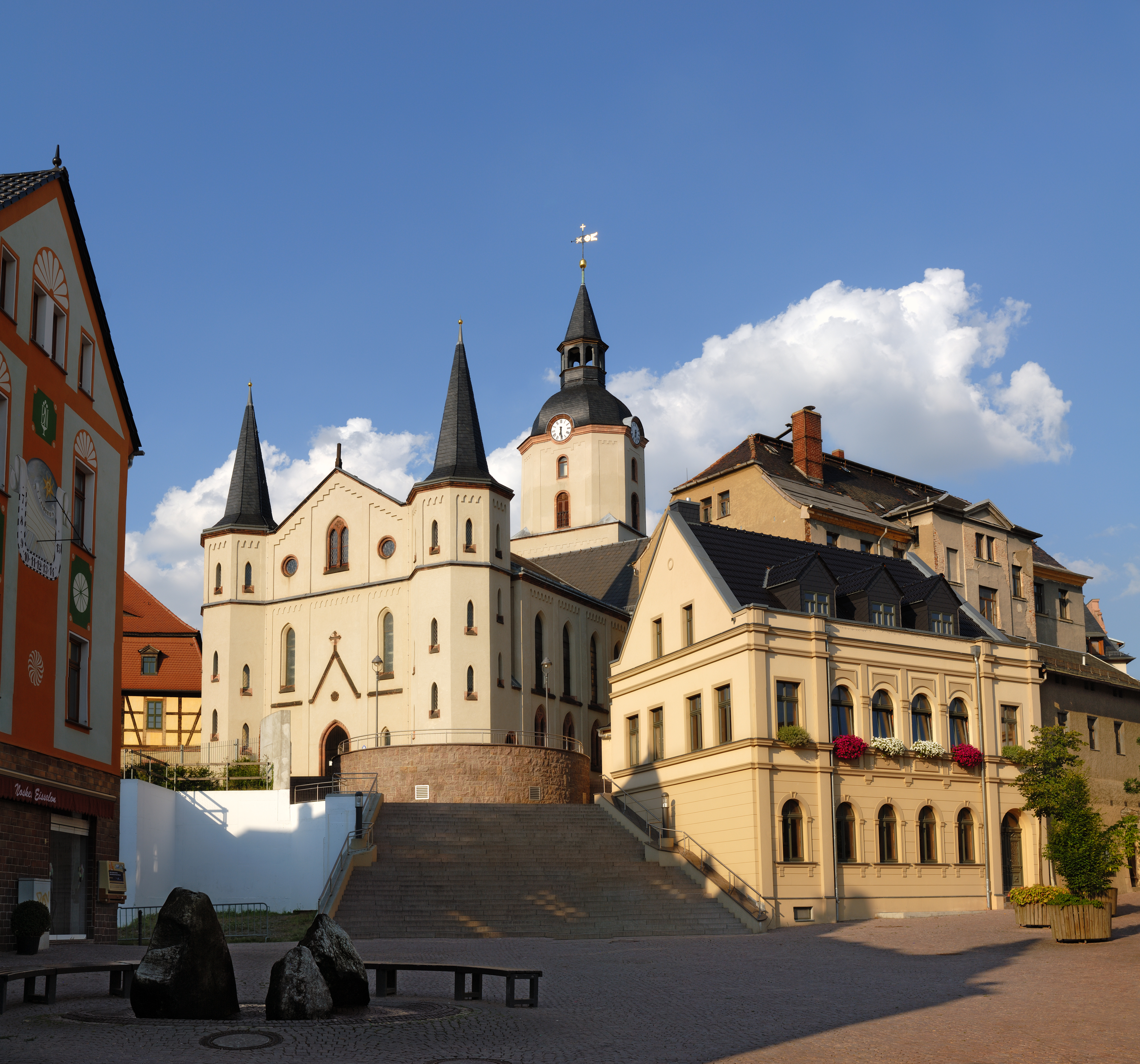 This image shows the town church St. Martin in Meerane, Germany. It is a fourteen segment panoramic image.